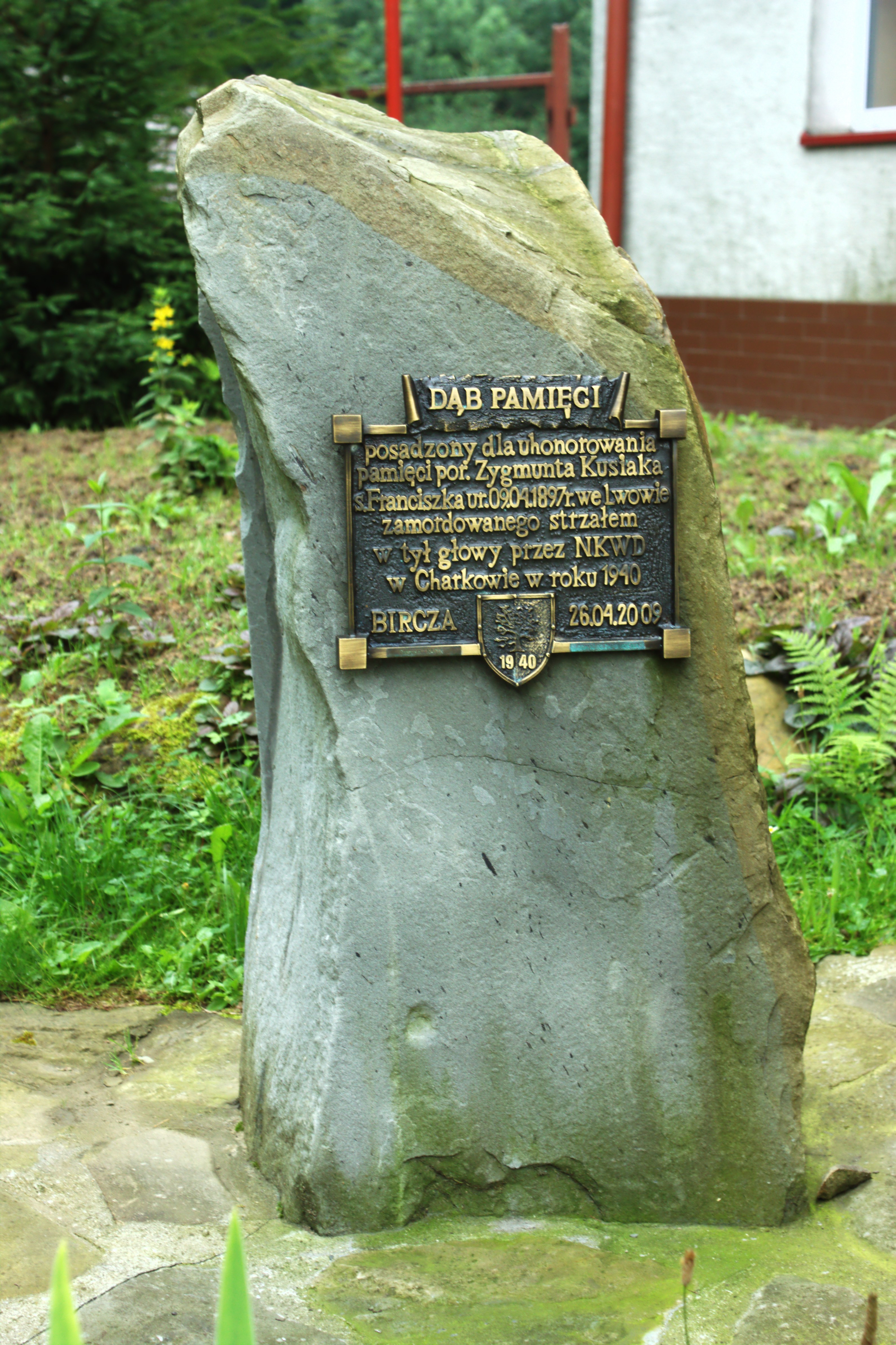 A monument in Bircza, near the local grammar school. Podkarpackie voivodeship, Poland